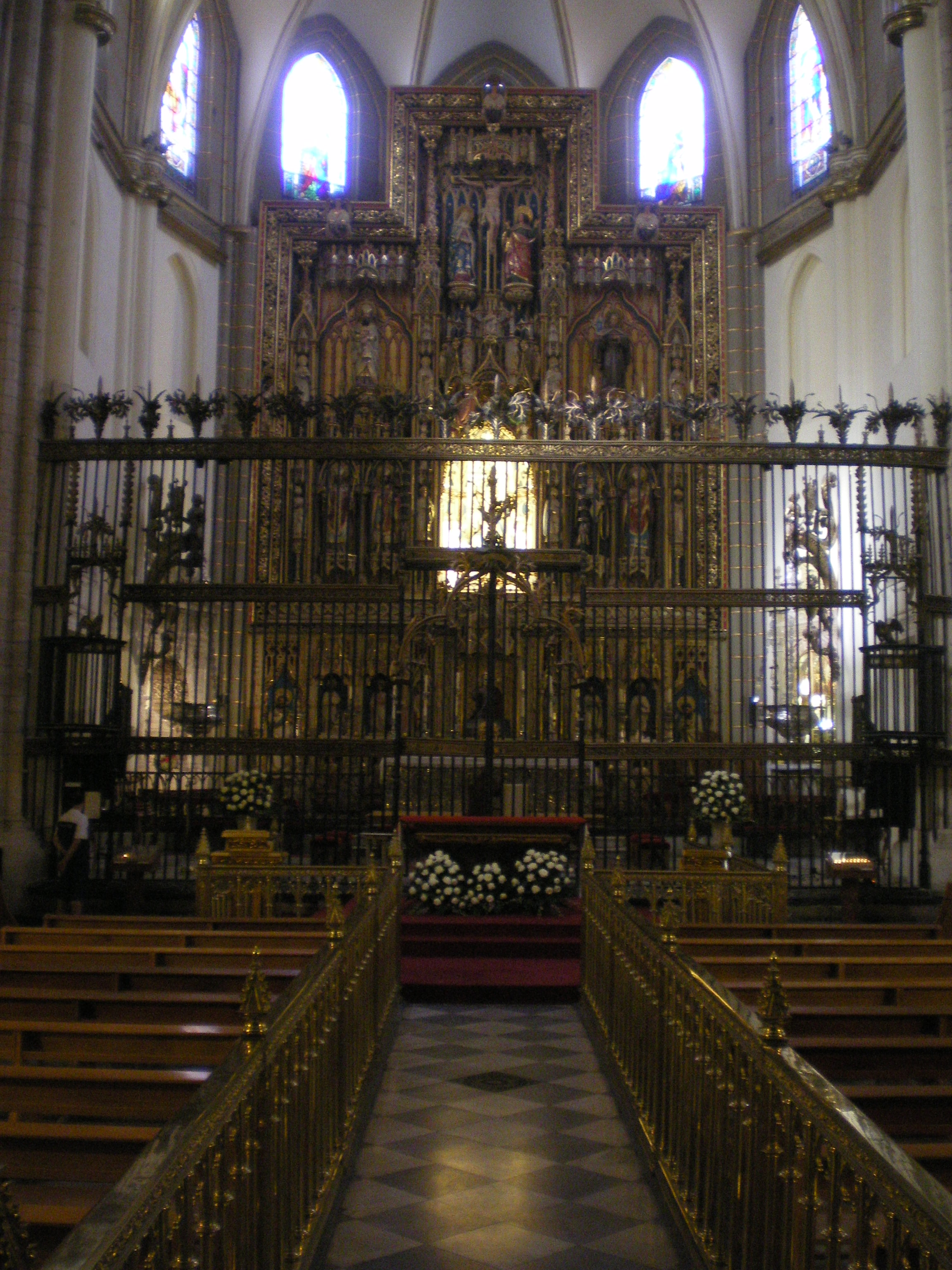 Main altar